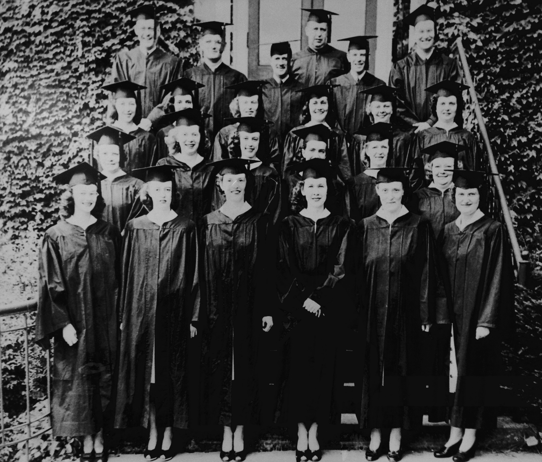 Frost burg State Teacher's College, Class of 1946